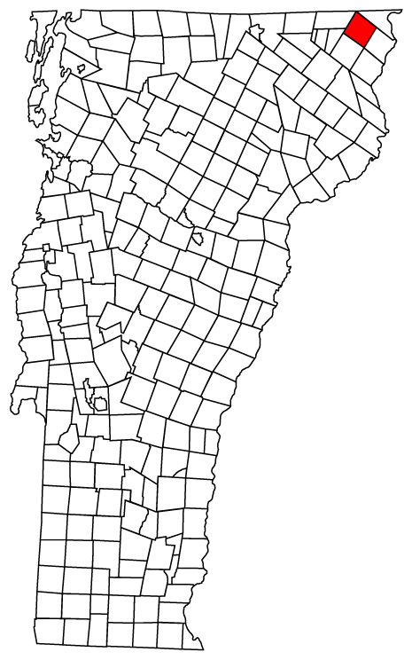 Description: Map of Vermont towns with Averill highlighted Source: Map created by Jared C. Benedict on 26 March 2004. Copyright: © Jared C. Benedict.